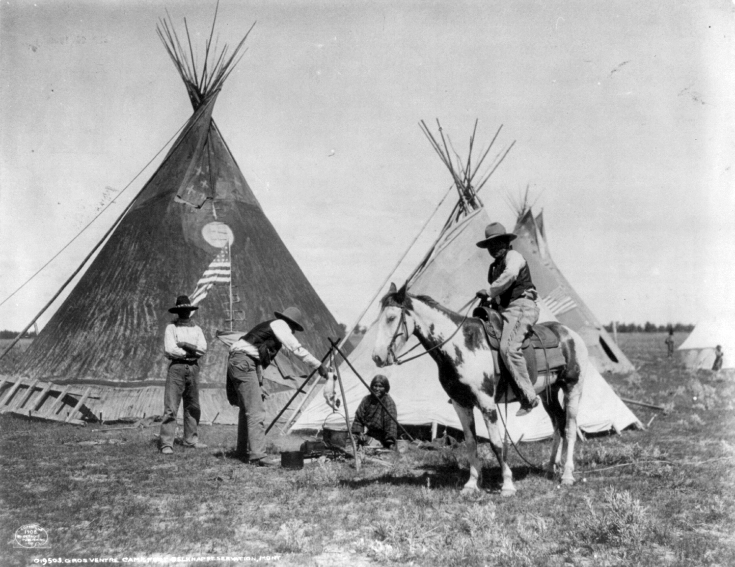 Gros Ventre Camp, Fort Belknap Indian Reservation, Montana